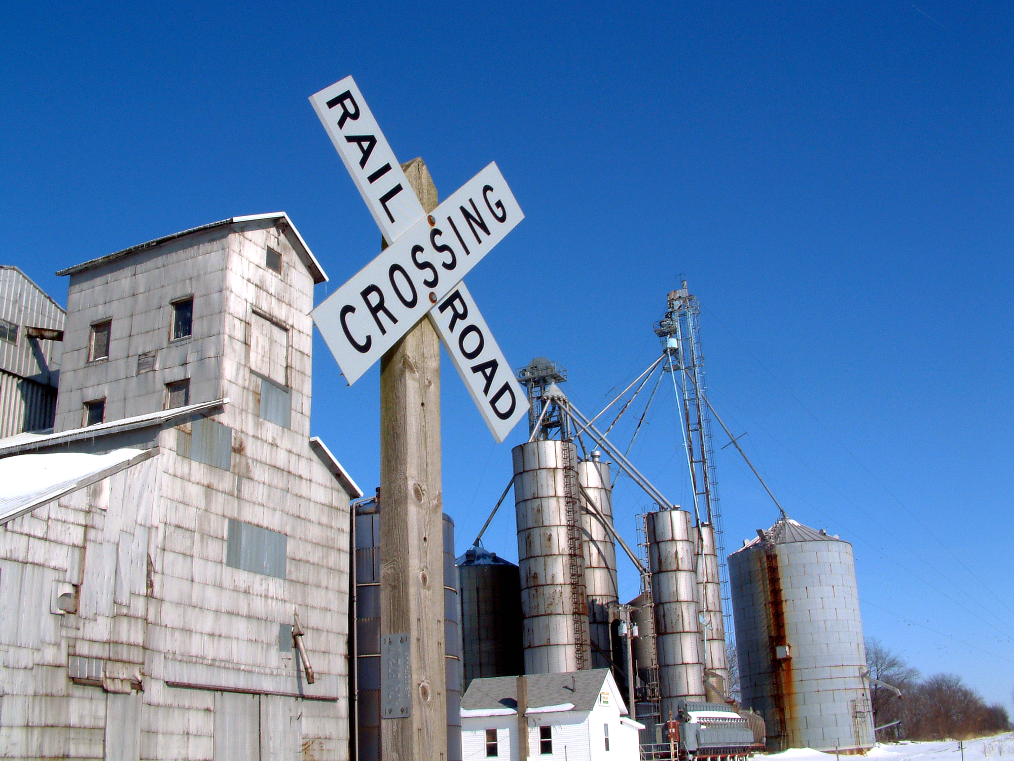 Grain elevators along the Kankakee, Beaverville and Southern Railroad in Chase, Indiana. This photo looks northeast.